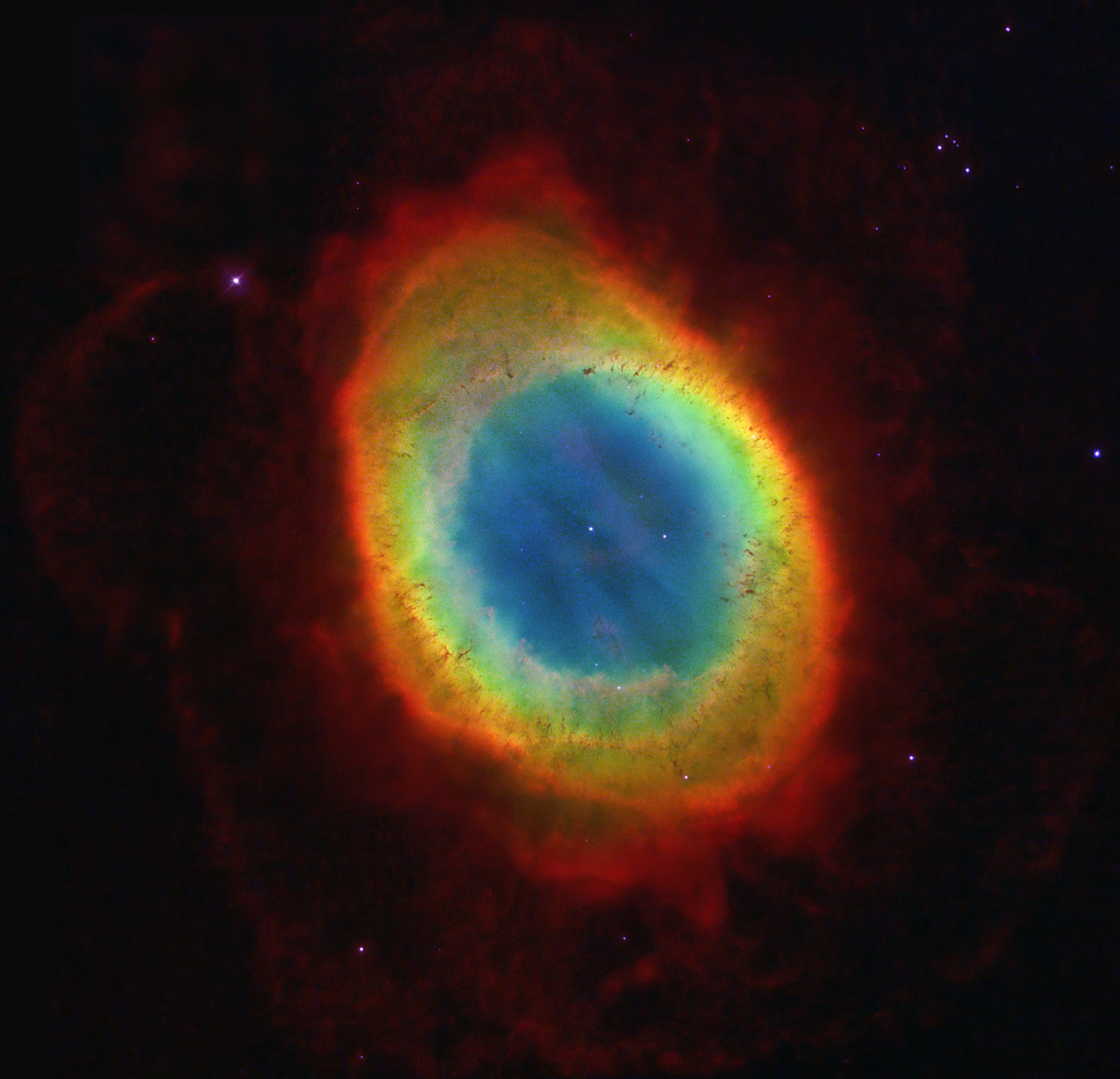 The Ring Nebula has a very nice set of data. It's very fun without a lot of odd things to deal with. I included the faint outer structures which resemble petals of a carnation but they are a bit underexposed and blurry. You can see them better here in an image which combines Hubble data with imagery taken from the ground. Red: hst_07632_01_wfpc2_f658n_wf_sci Green: hst_07632_01_wfpc2_f502n_wf_sci Blue: hst_07632_01_wfpc2_f469n_wf_sci North is NOT up